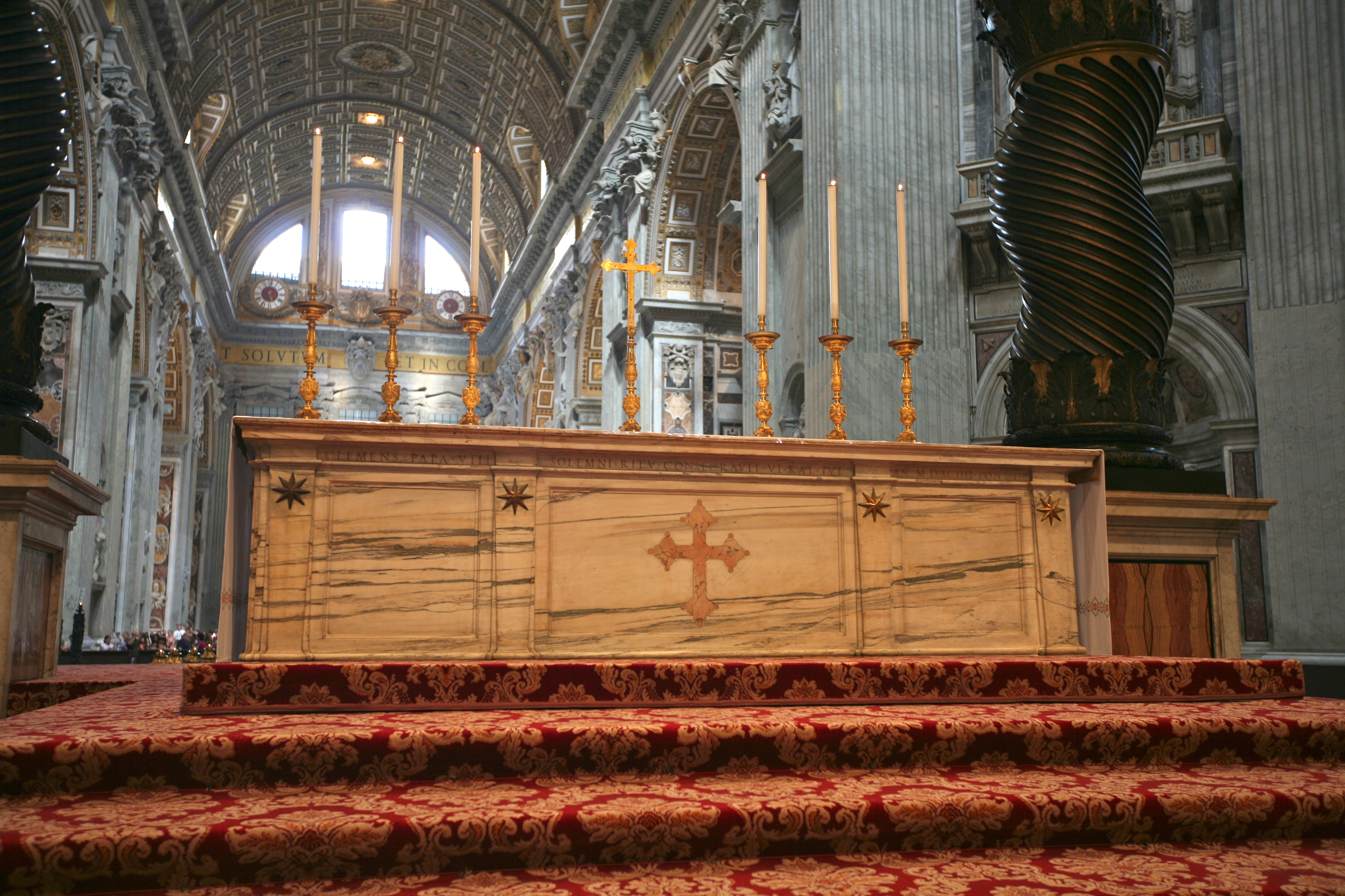 Candles at the Altar, St. Peter's Basilica